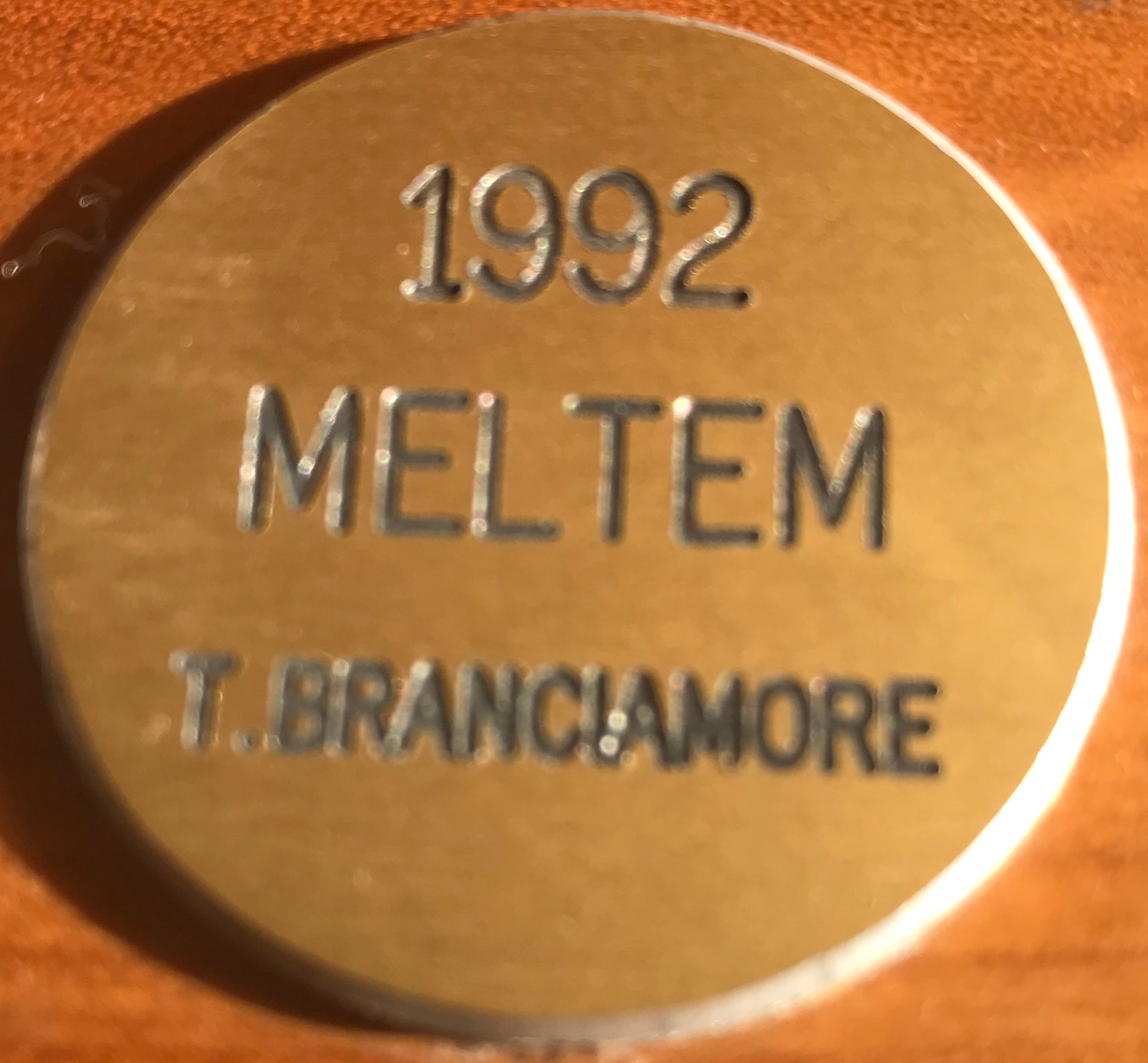 Patch on the Trophy